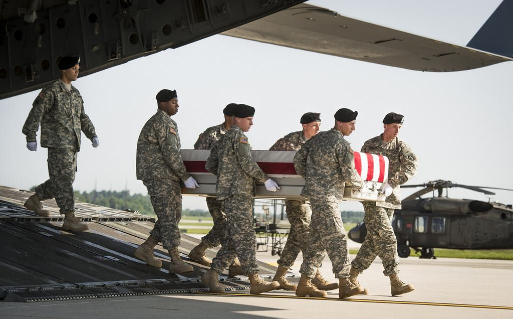 U.S. Army Soldiers carry a flag-draped case with the remains of Army Maj. Gen. Harold J. Greene, which arrived on a C-17 Globemaster III aircraft on Dover Air Force Base, Del., Aug. 7, 2014. Greene was killed on Aug. 5, 2014, west of Kabul, Afghanistan, while visiting the Marshal Fahim National Defense University, a training academy for Afghan officers. He is the first U.S. general officer to be killed in the wars in Iraq and Afghanistan. (U.S. Army photo by John G. Martinez)